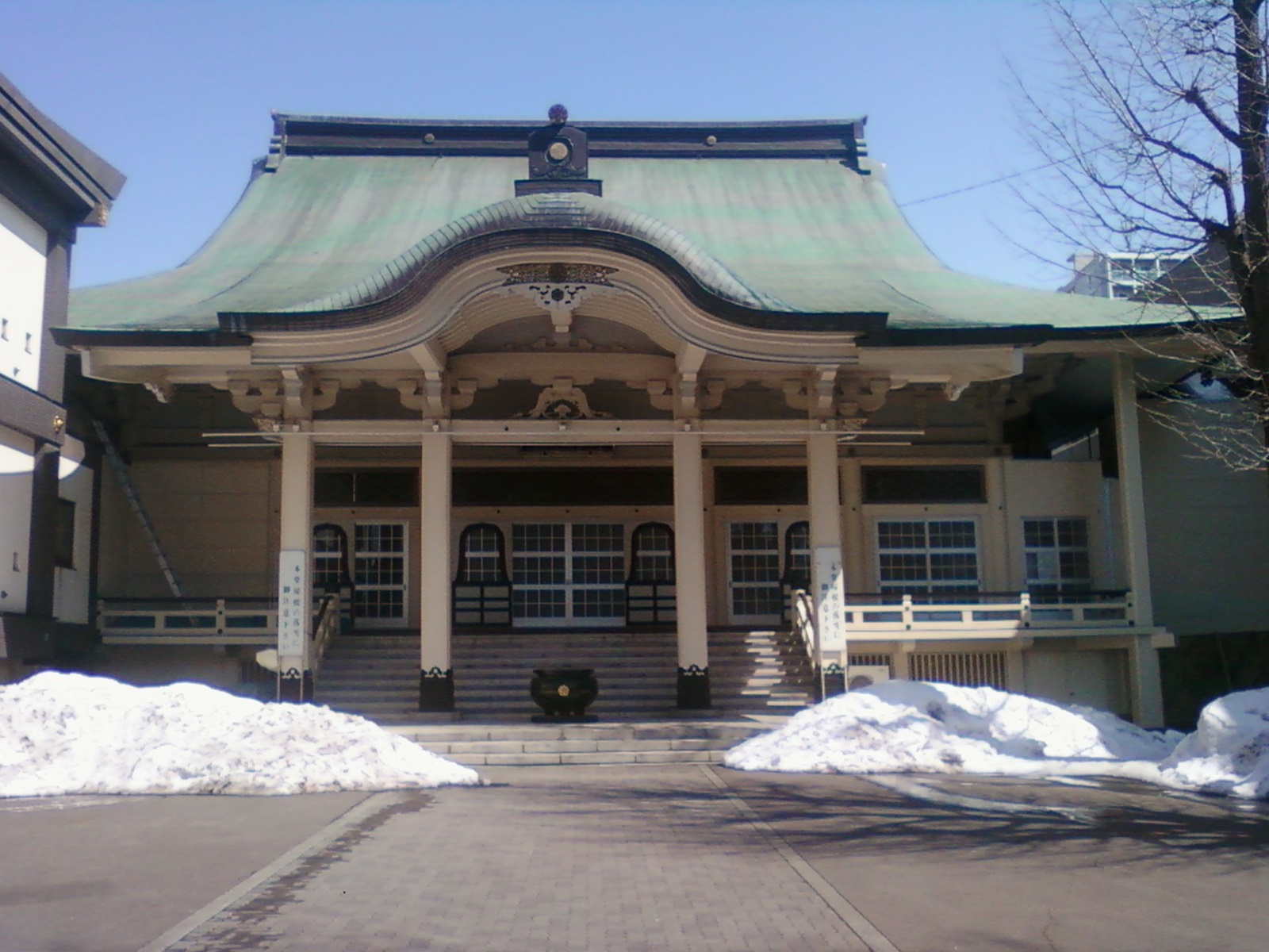 Chuoji in Sapporo, Hokkaido, Japan